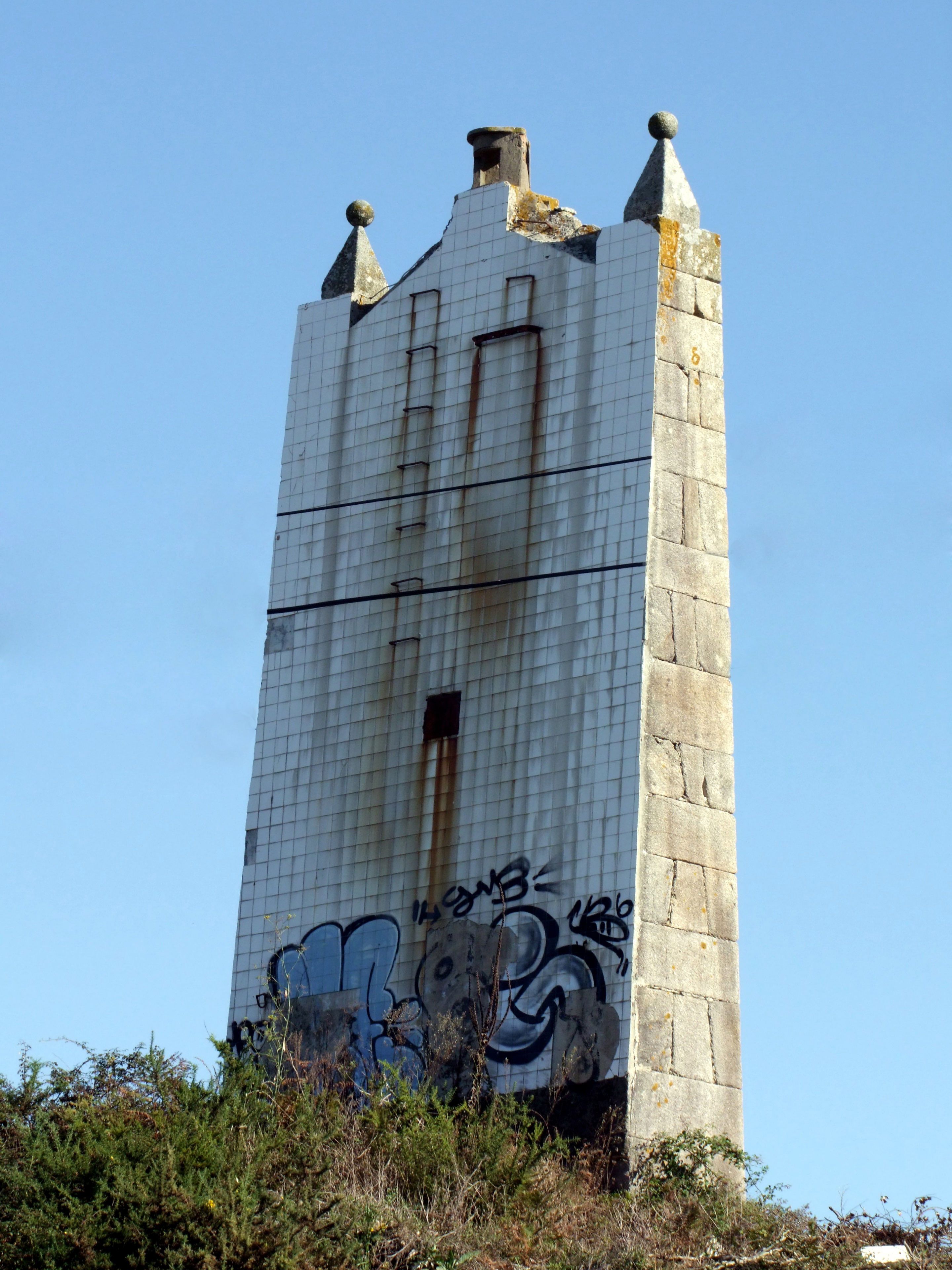 River Ave mouth range rear beacon, Árvore, Vila do Conde, Portugal